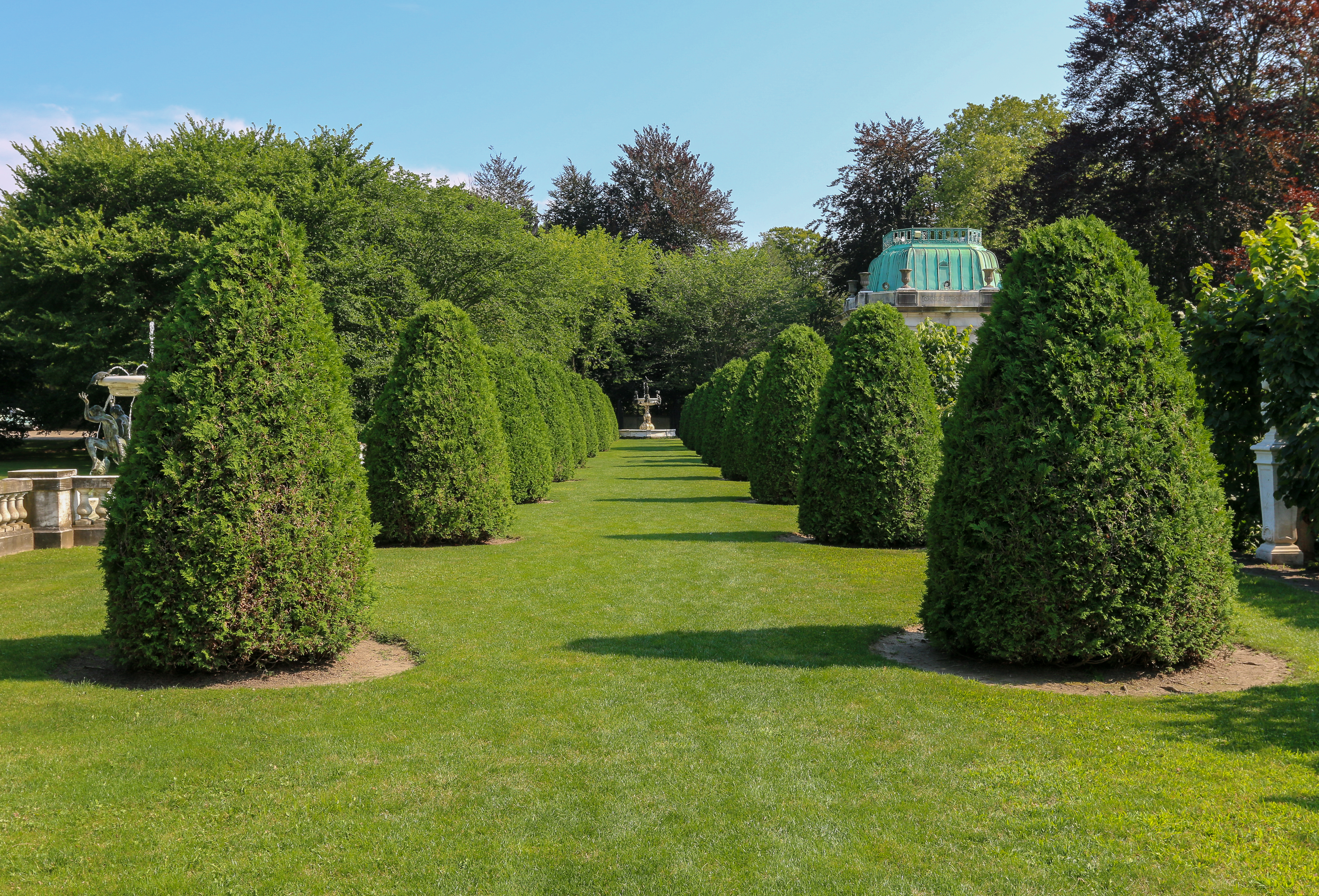 Garden of the Elms, Newport, Rhode Island